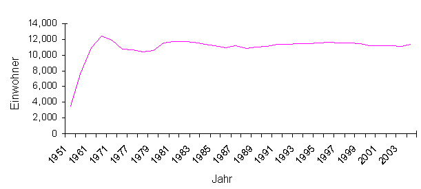 German Version of .